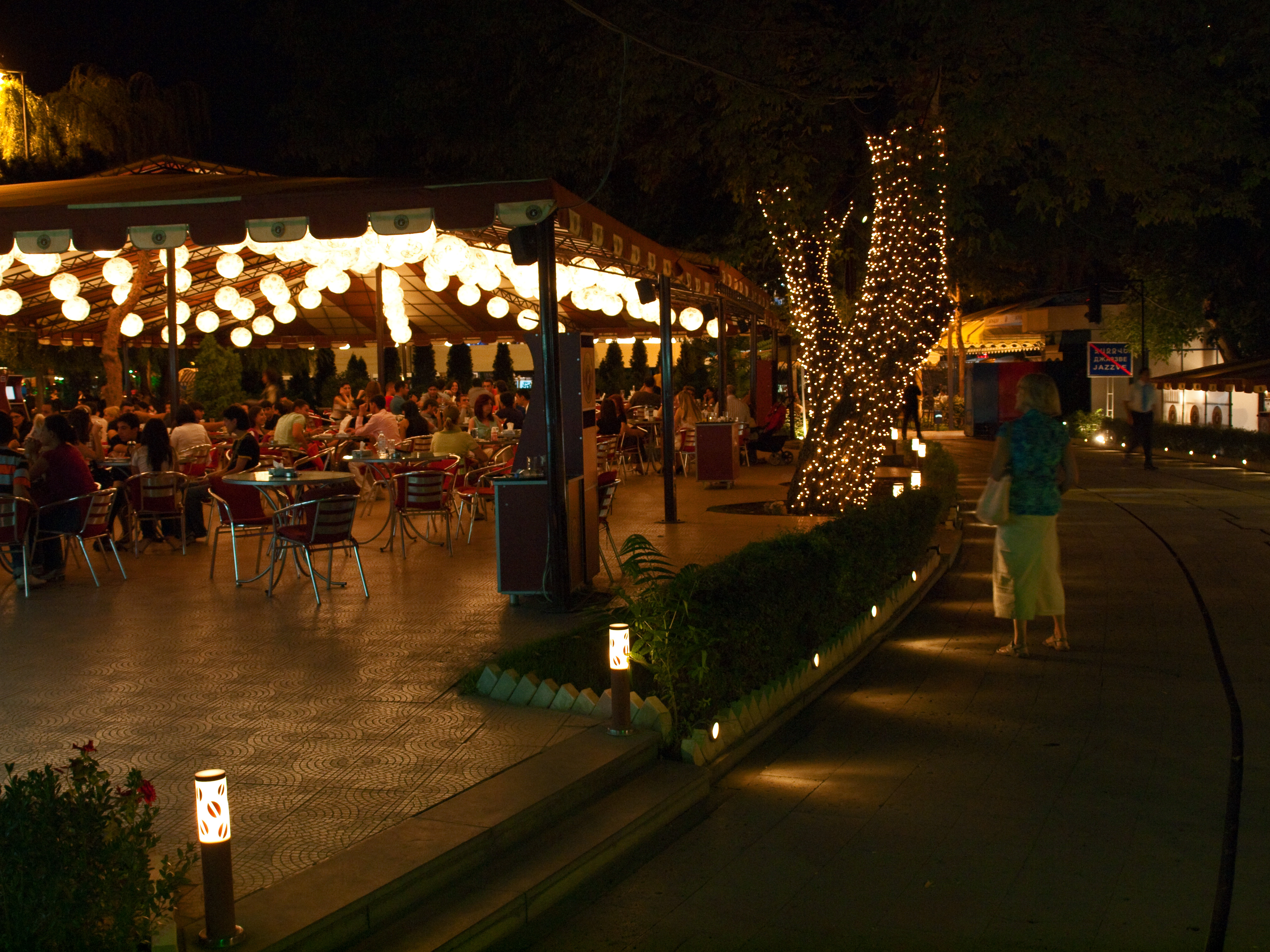 Armenia - Day 1 - 18 September 2010. Around the Opera House in Yerevan there are many good cafes.